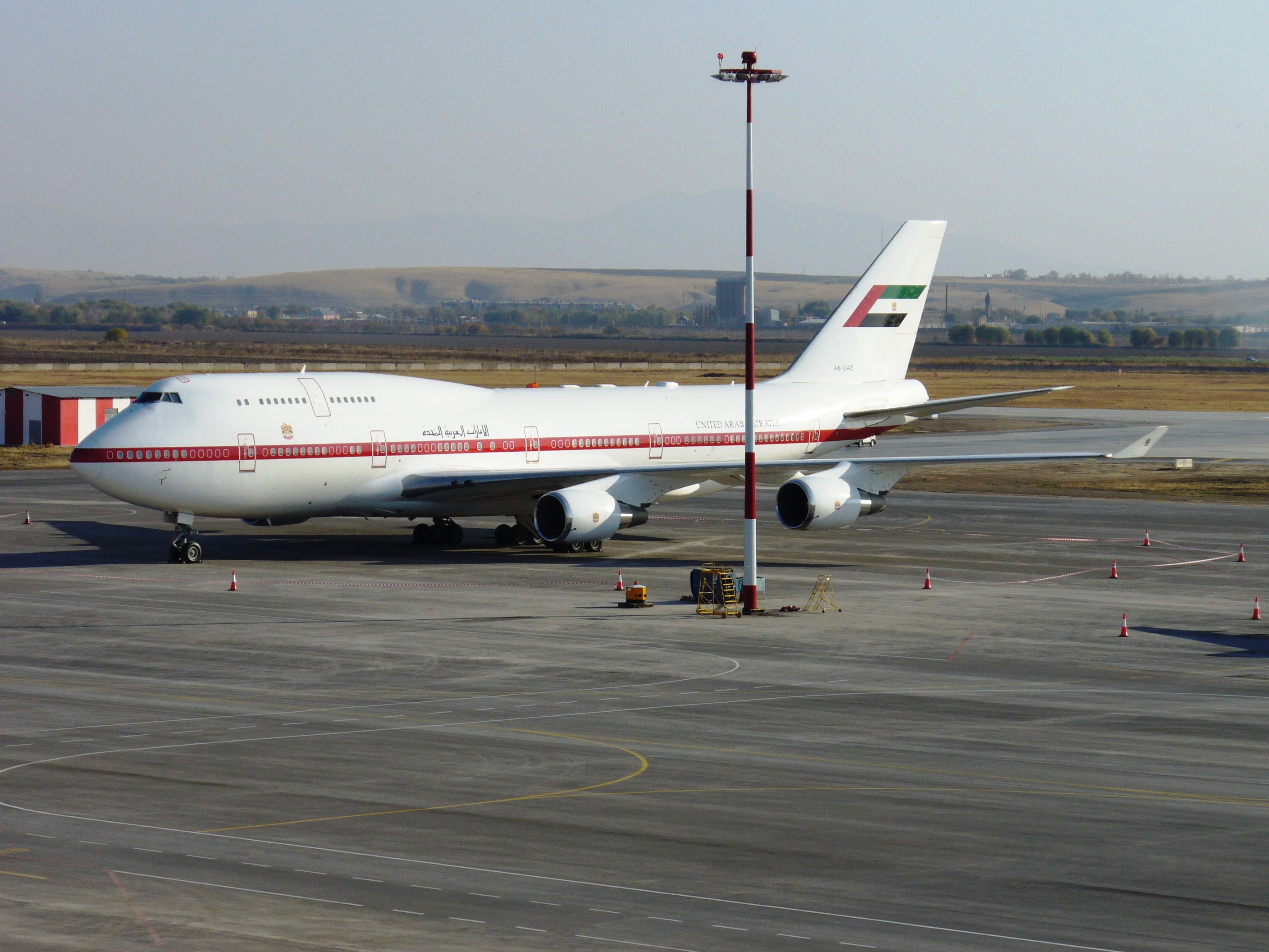 First Boeing-747 in Shymkent International Airport, South Kazakhstan Province. October 2007